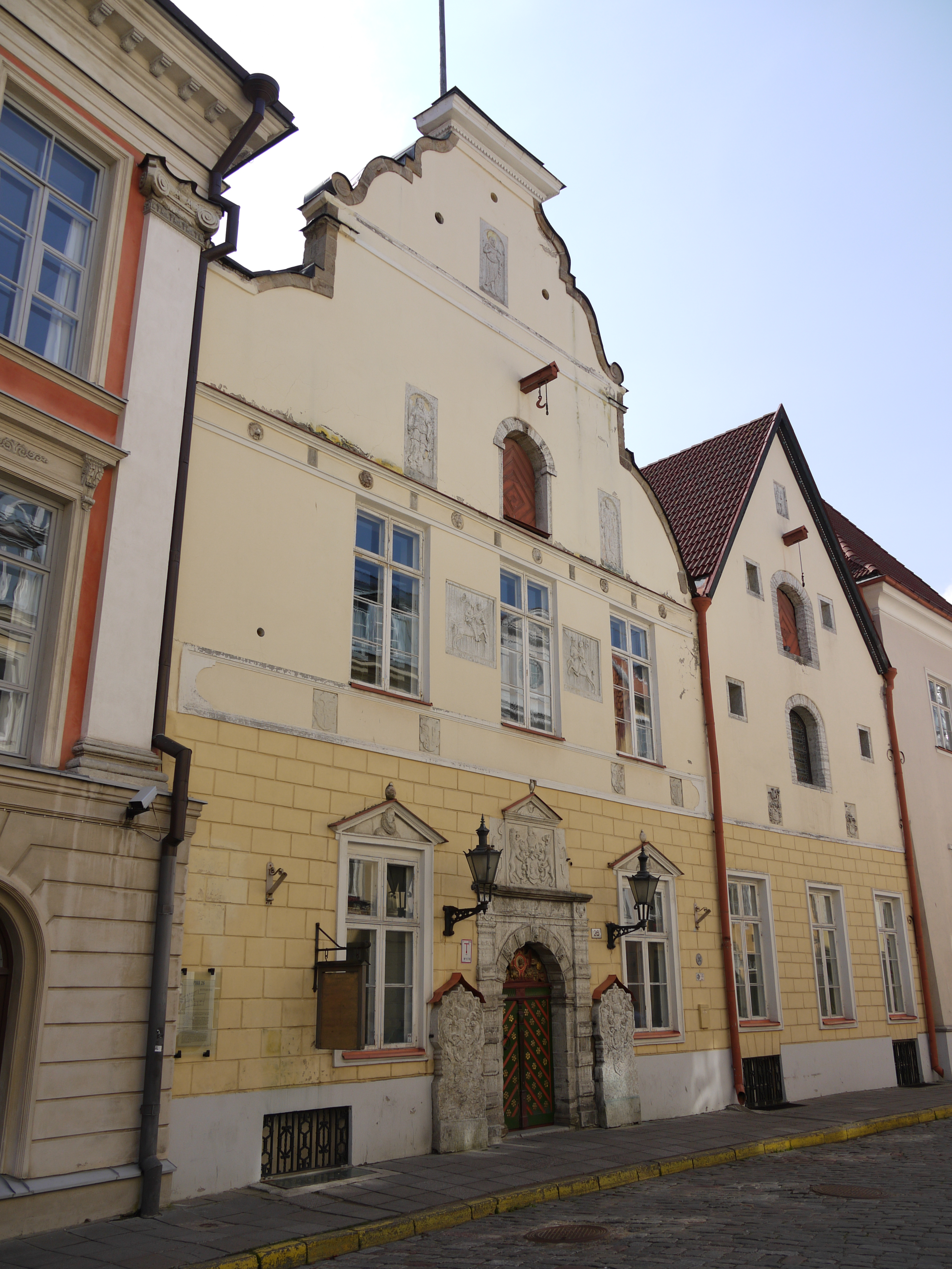 Mustpeade vennaskonna hooned (Tallinn)